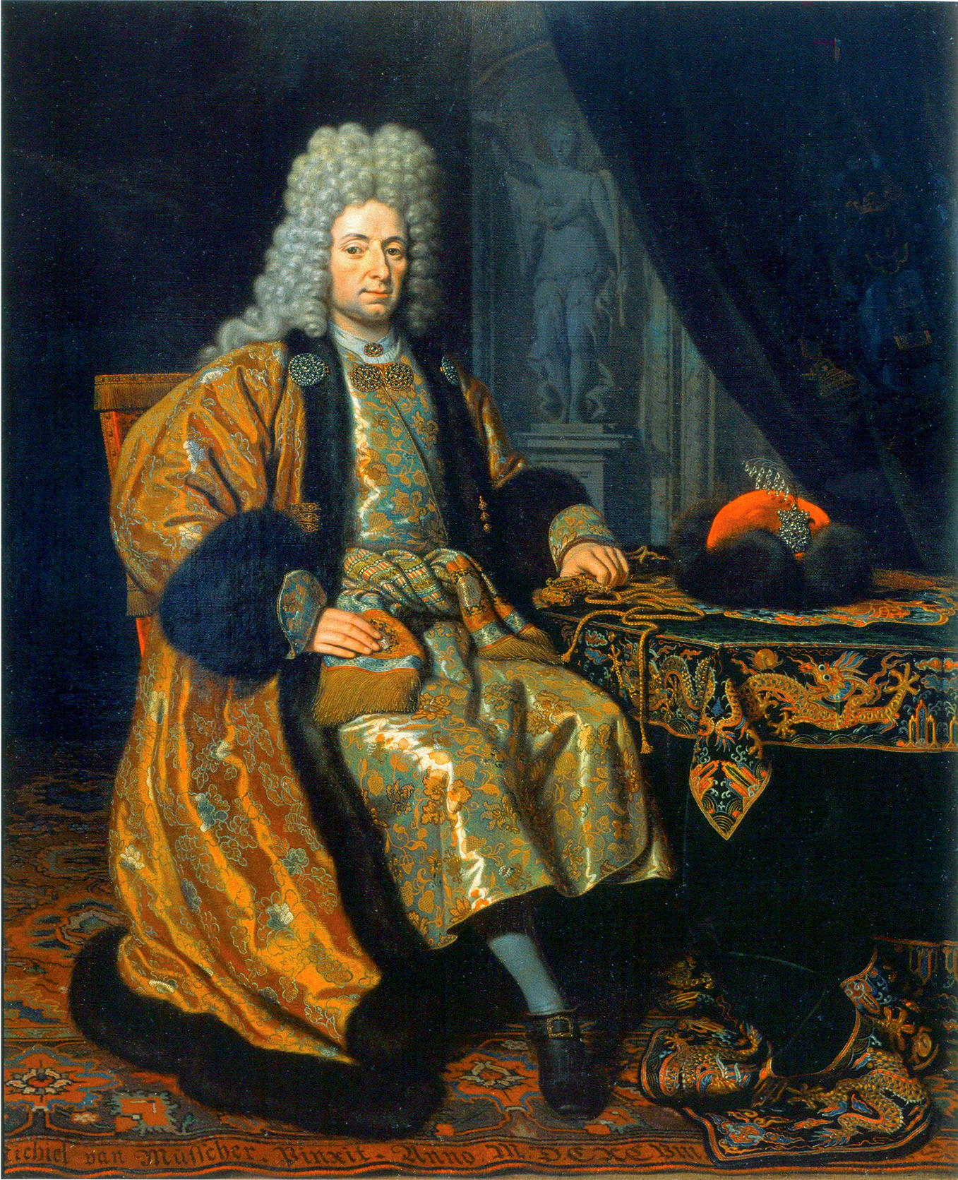 Portrait of François Lefort in 1698 painted in Holland during Grand Embassy of Peter the Great